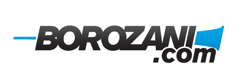 official logo